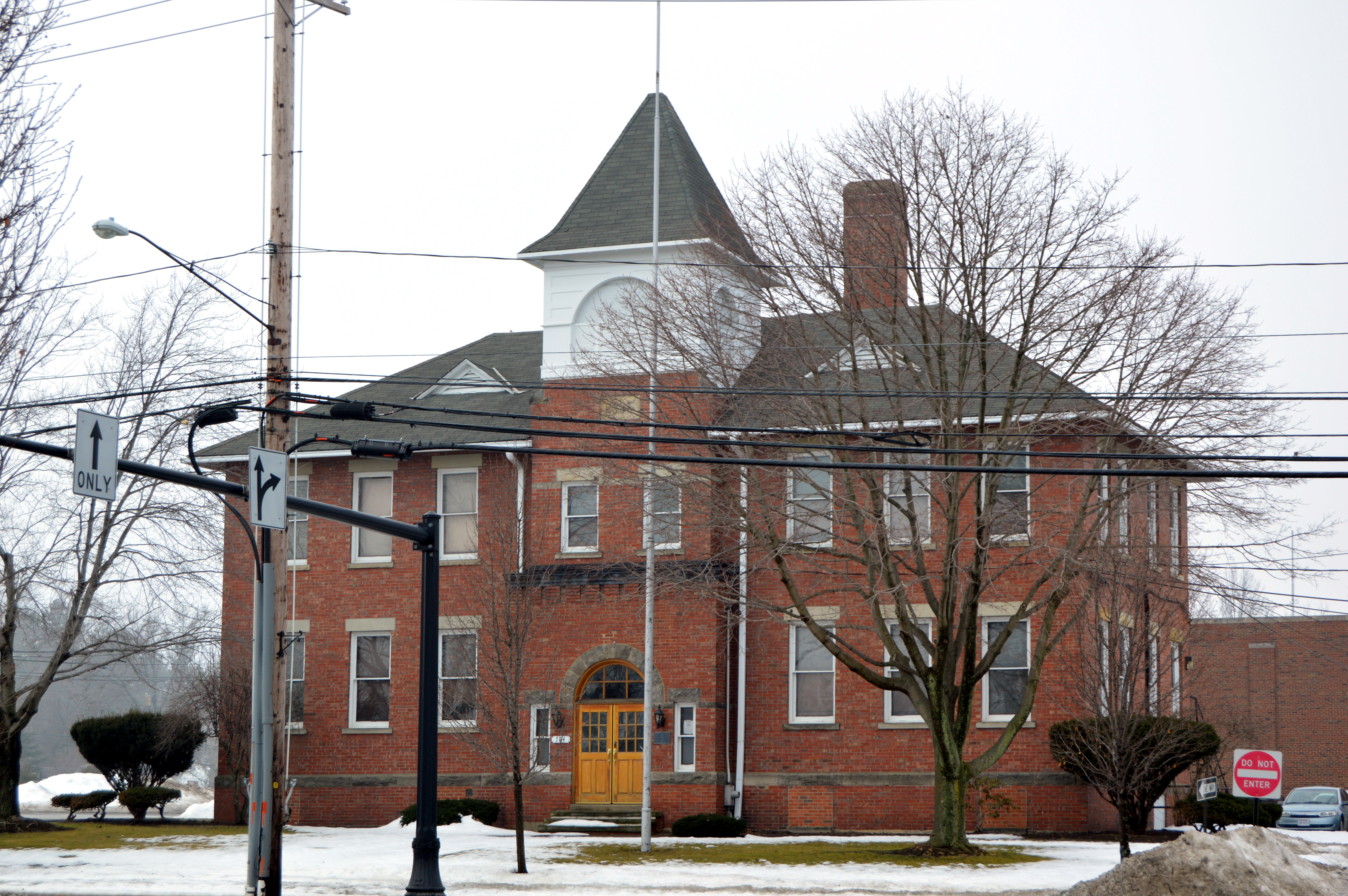 Front and northern side of the Old Center School, located at 784 SOM Center Road (State Route 91) in Mayfield, Ohio, United States. Built in 1906, it is listed on the National Register of Historic Places.